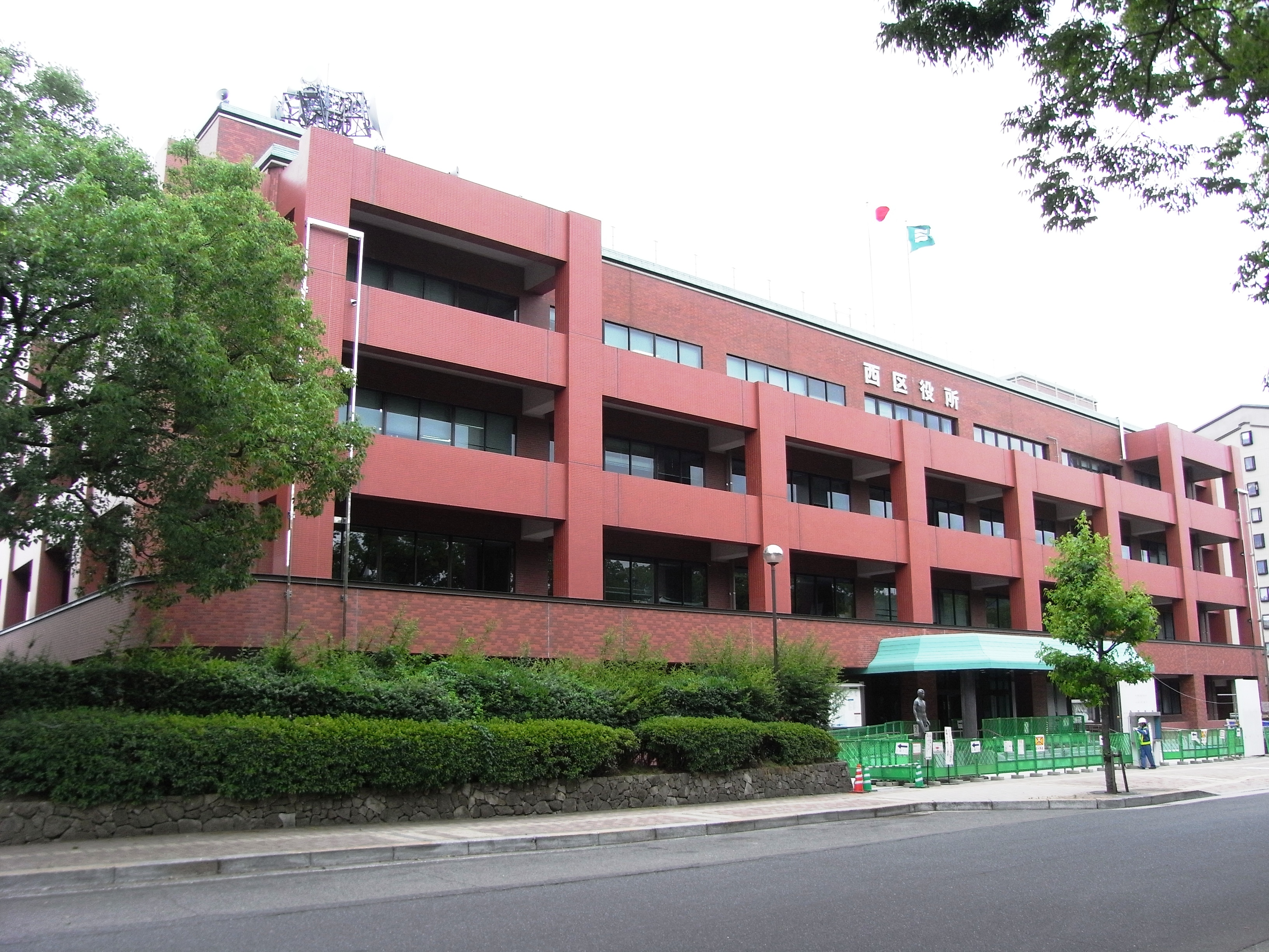 Nishi Ward Office in Hiroshima City, Hiroshima Prefecture, Japan